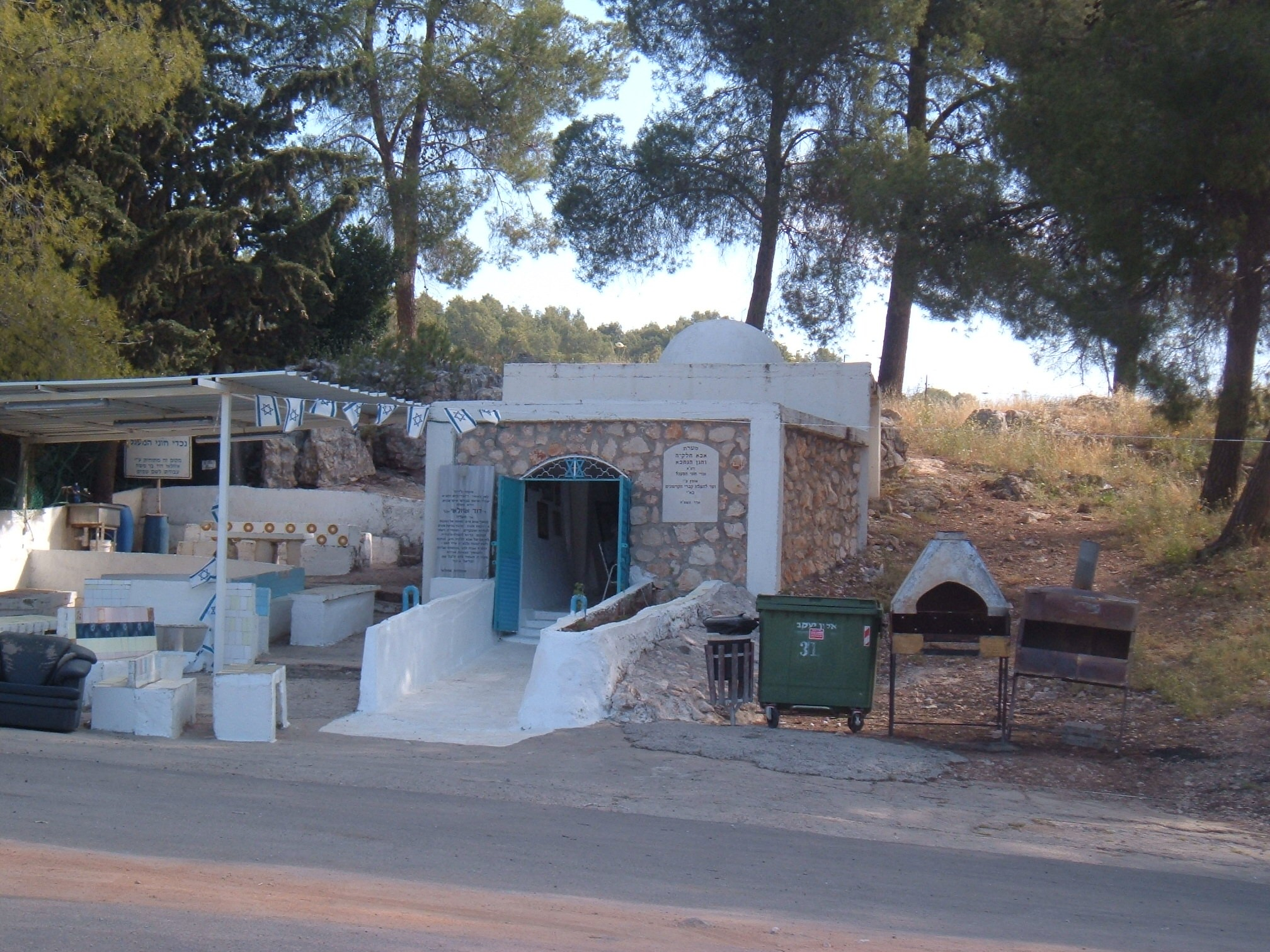 The graves of Tannaim Aba Hilqia and Hanan Hanechba, grandsons of Honni the circler near Hatzor Hagelilit. קבריהם של התנאים אבא חלקיה וחנן הנחבא, נכדיו של חוני המעגל, סמוך לחצור הגלילית.